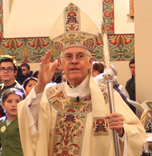 Archbishop Michael Sheehan during a Sanctity of Life Awareness Day Mass